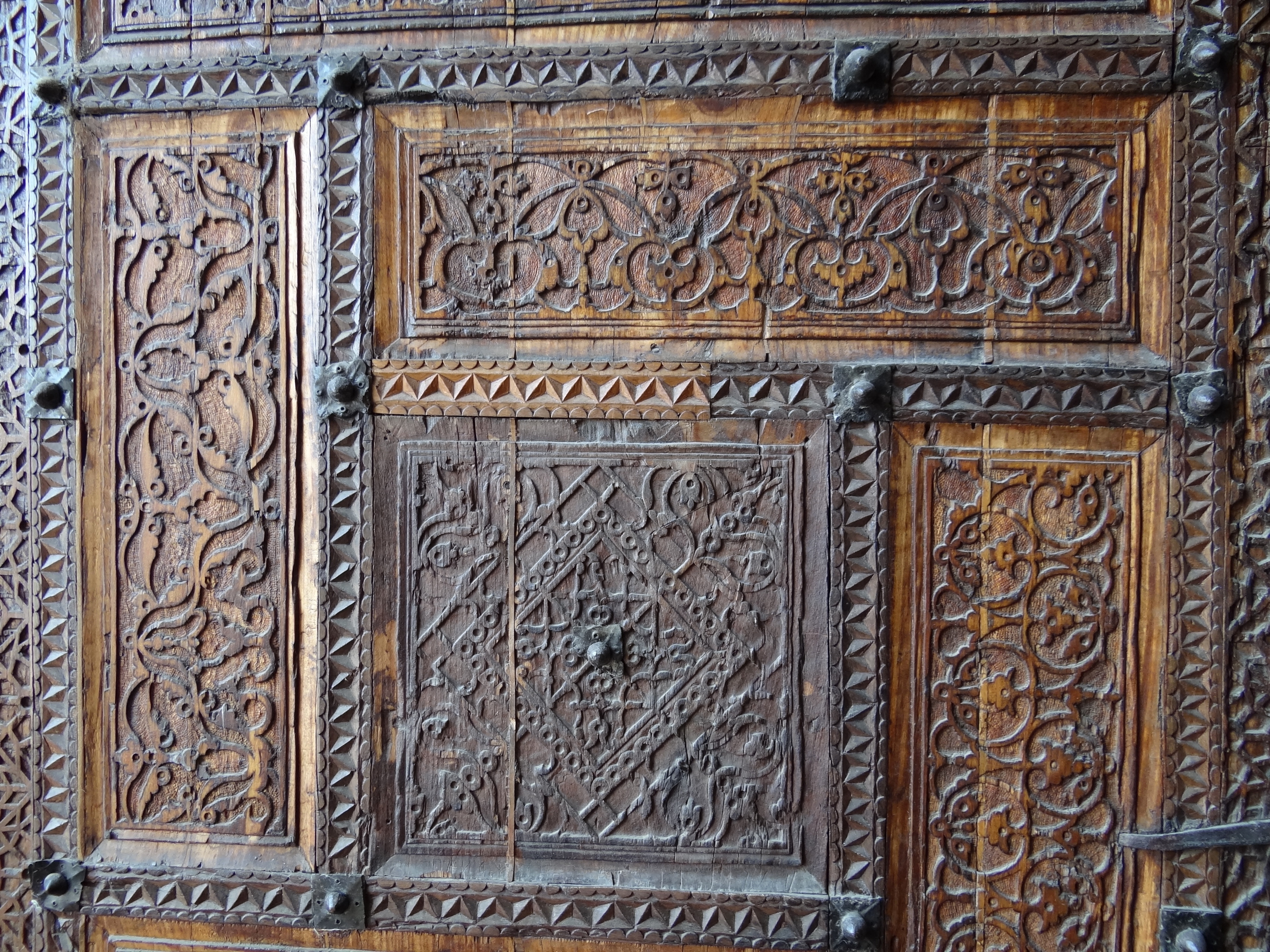 Carved Wooden Door of Narbutabey Medressa - Kokand - Uzbekistan